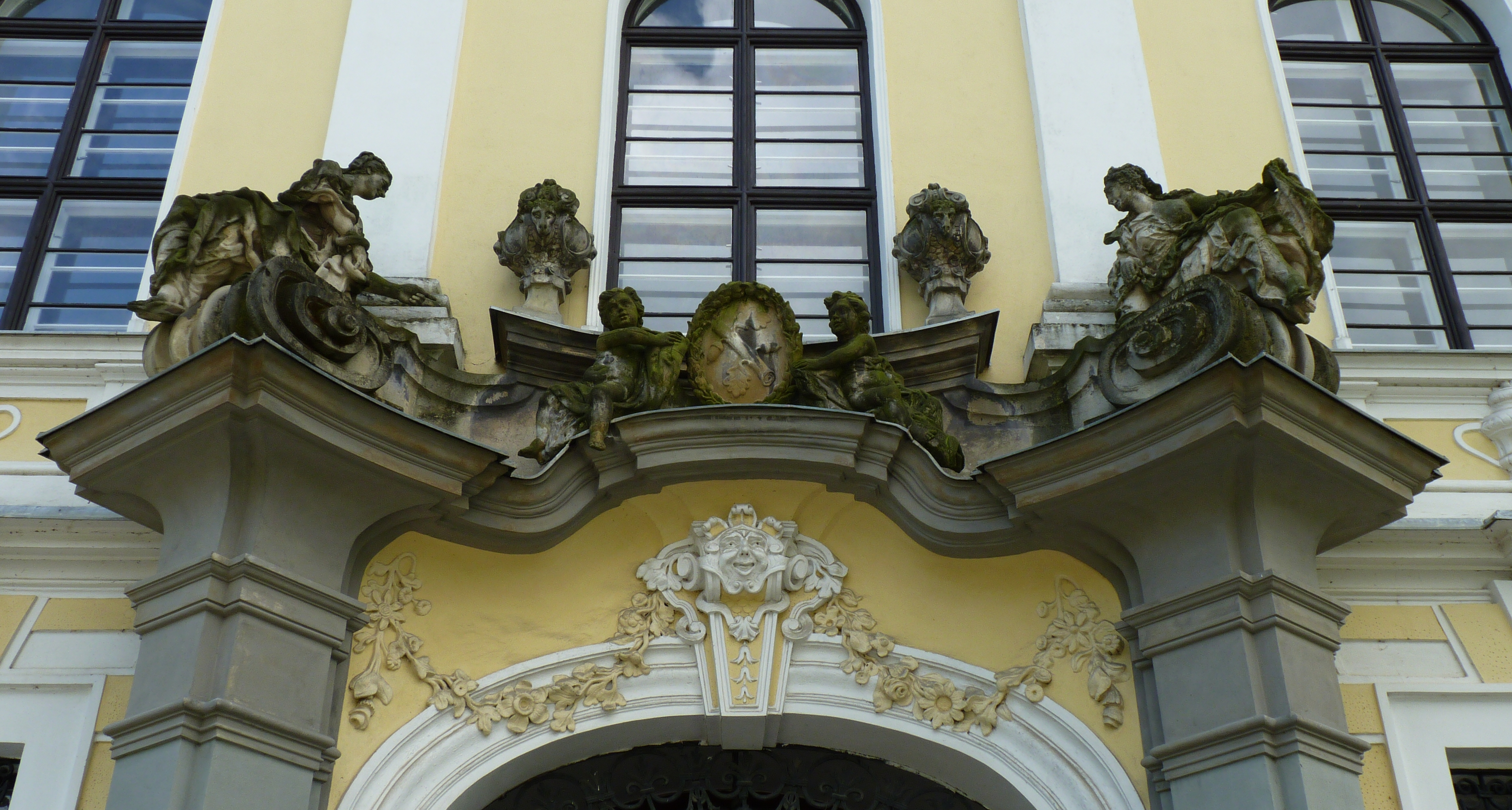 Kravaře Castle, Kravaře, Moravian-Silesian Region, Czech Republic